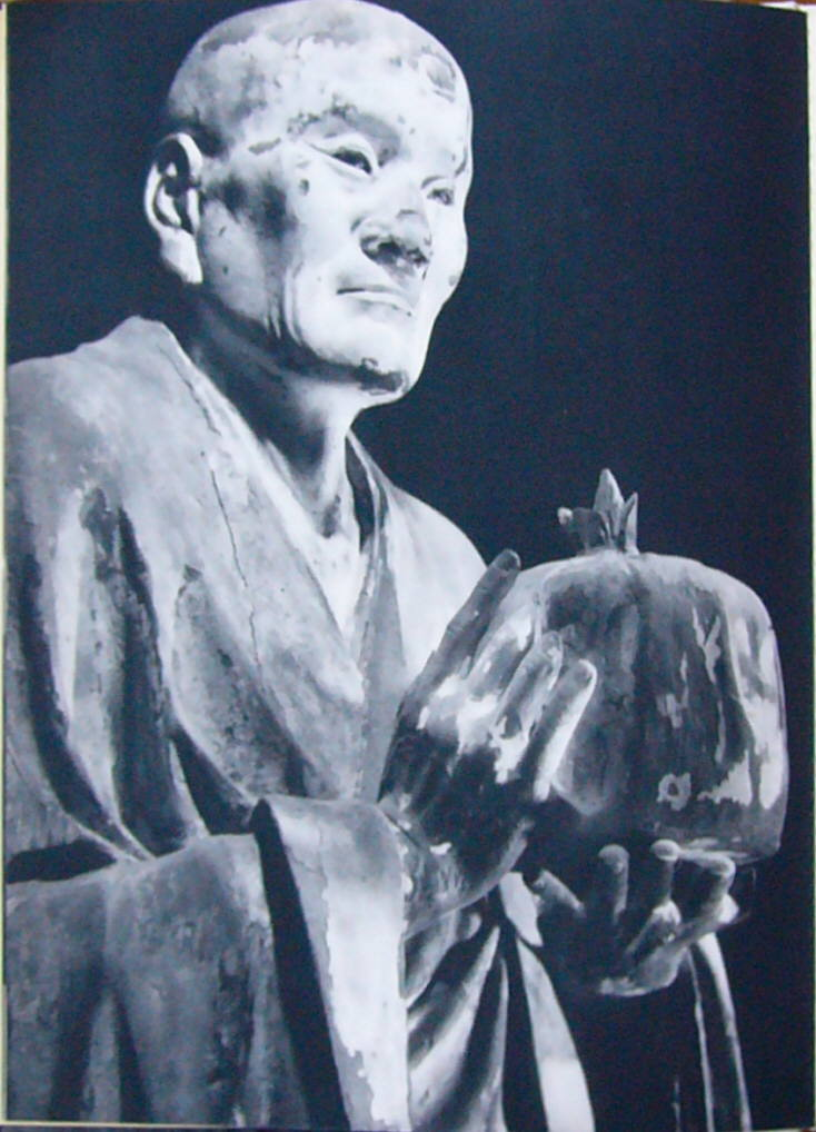 Mujaku (Asanga)(indian buddhist about ACE310-390), Wood, 193cm height, about ACE1208,The Northern Octagonal Hall of Kofukuji Temple, Nara, Japan